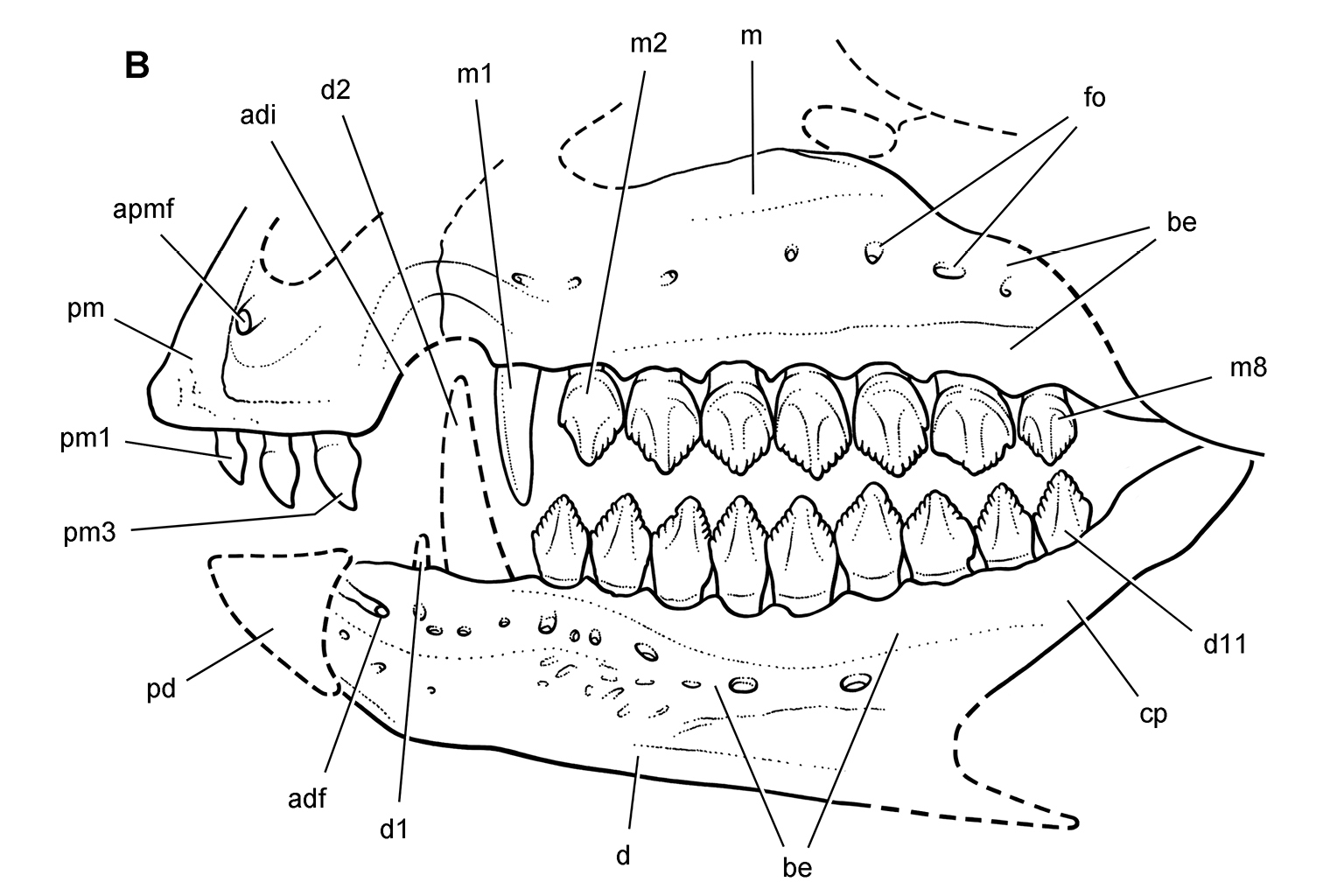 Skull of Echinodon becklesii from the Lower Cretaceous Purbeck Formation of England. Skull reconstruction in left lateral view. Dashed lines indicate estimated edges and sutures. Abbreviations: adf- anterior dentary foramen; adi- arched diastema; apmf- anterior premaxillary foramen; be -buccal emargination; cp- coronoid process; d- dentary; d1, 2, 11 dentary tooth 1, 2, 11; fo foramen; j jugal; l lacrimal; m maxilla; m1, 2, 8 maxillary tooth 1, 2, 8; pd predentary; pm premaxilla; pm1, 3 premaxillary tooth 1, 3.